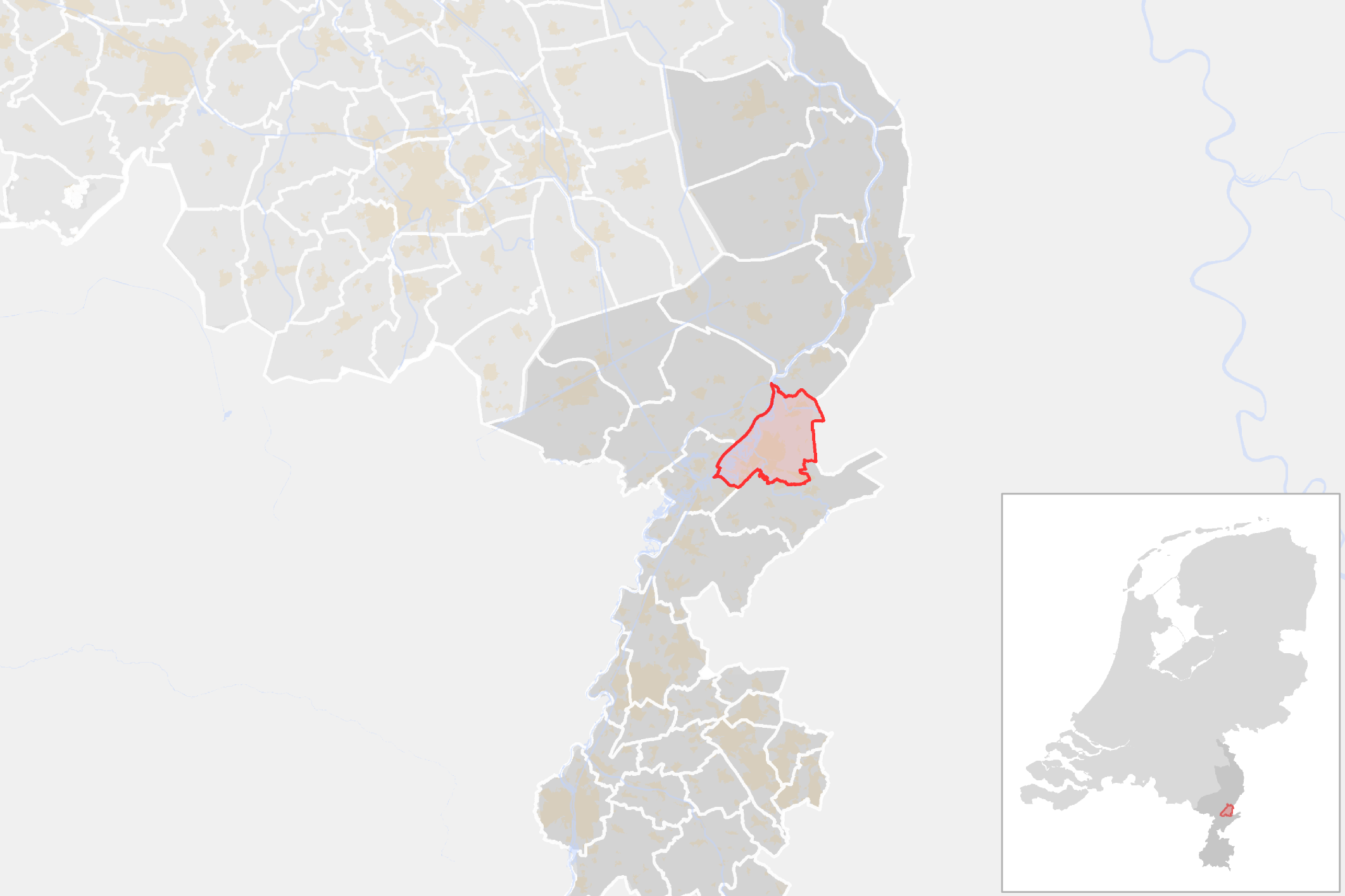 Locator map showing municipality boundary of one of the 390 Dutch municipalities (as of 2016)